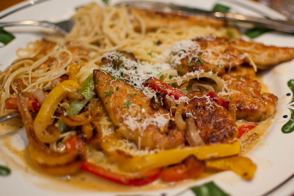 Olive Garden's Chicken scampi for dinner